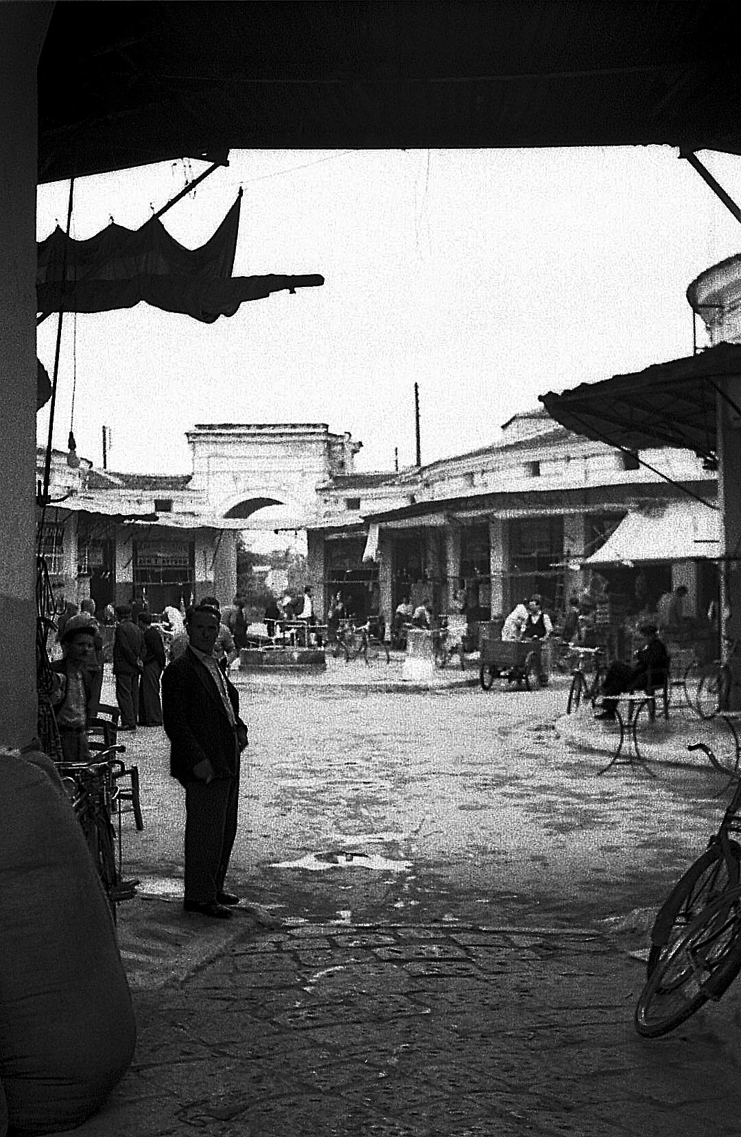 Trikala Market